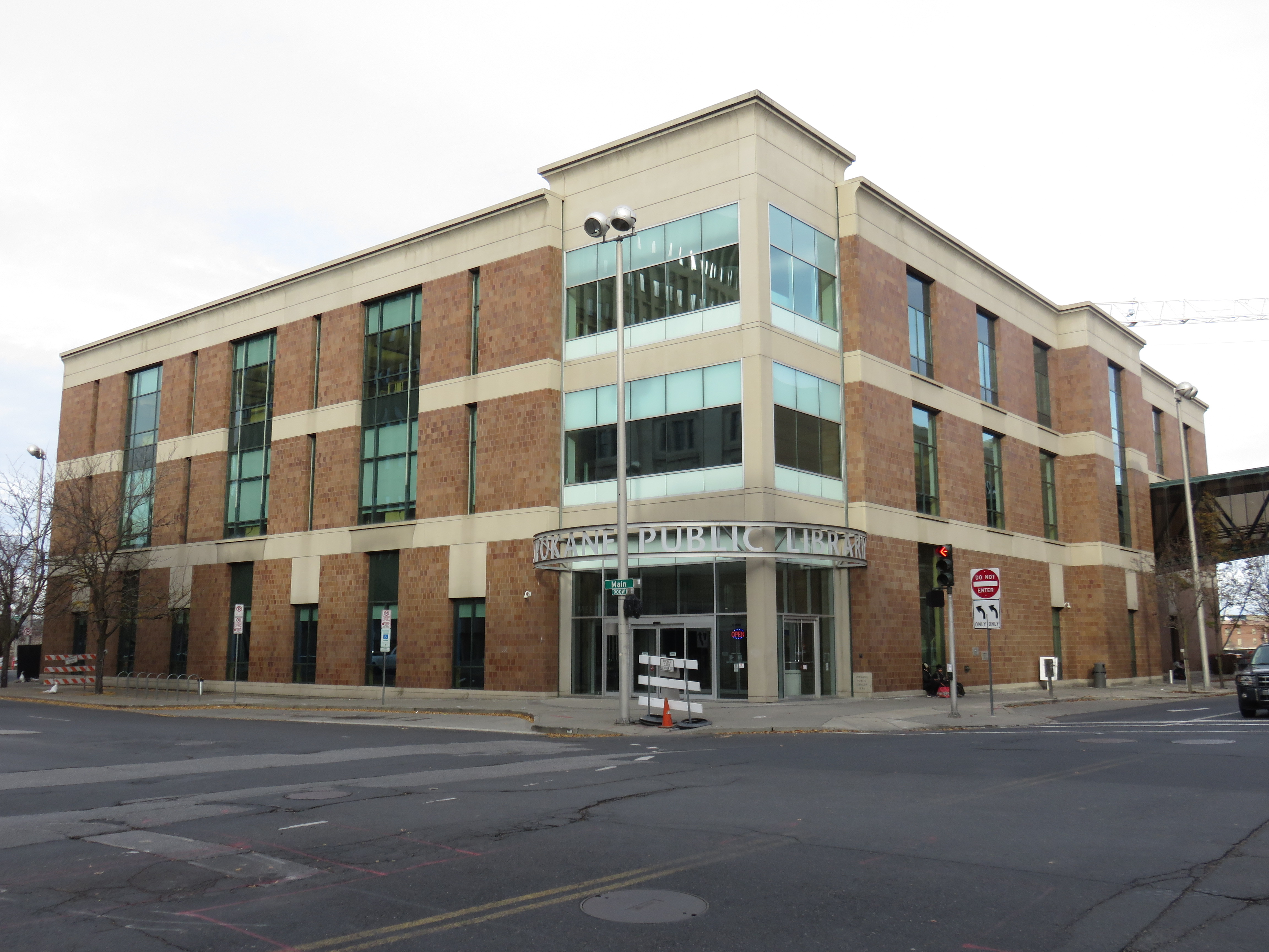 Spokane Public Library in 2018